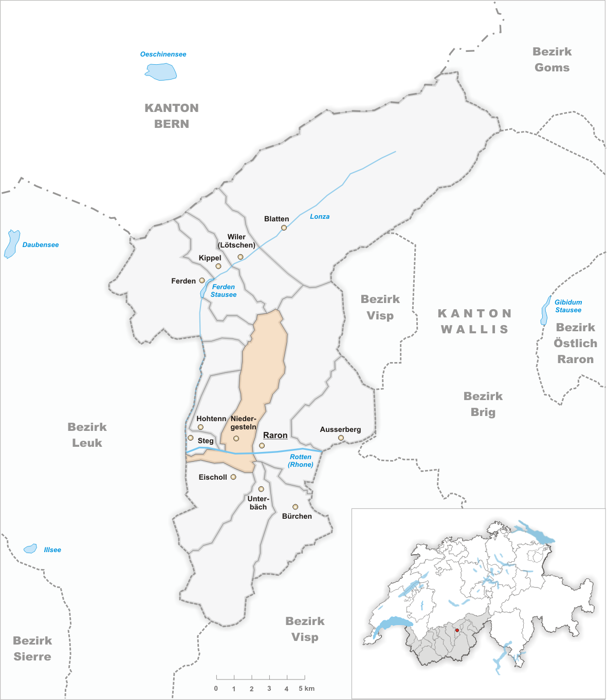 Municipality Niedergesteln